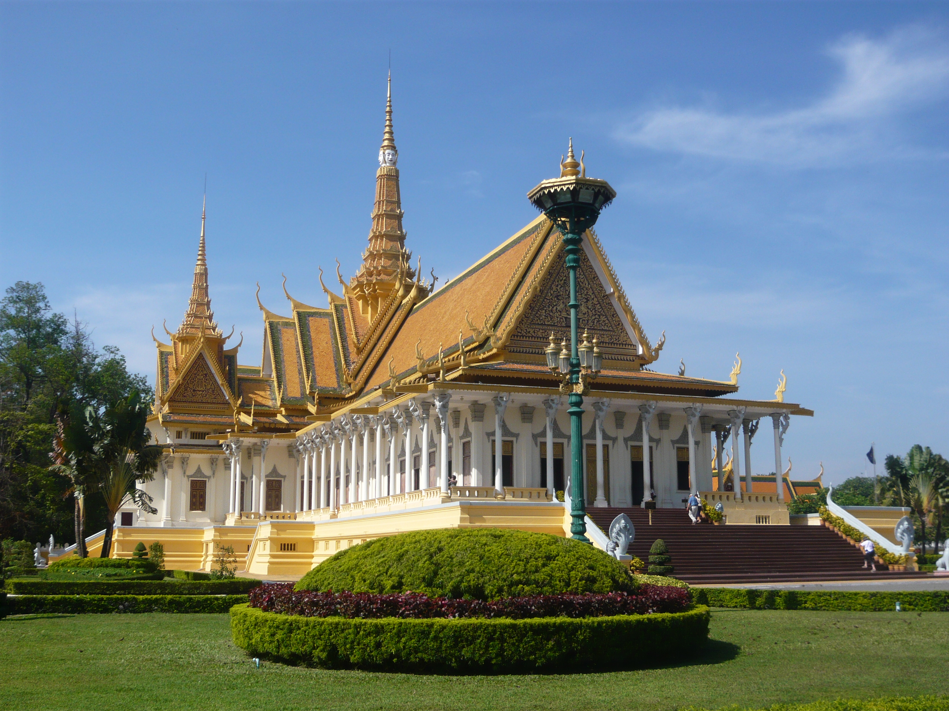 Royal Palace of the Kingdom of Cambodia. Phnom Penh, Cambodia.